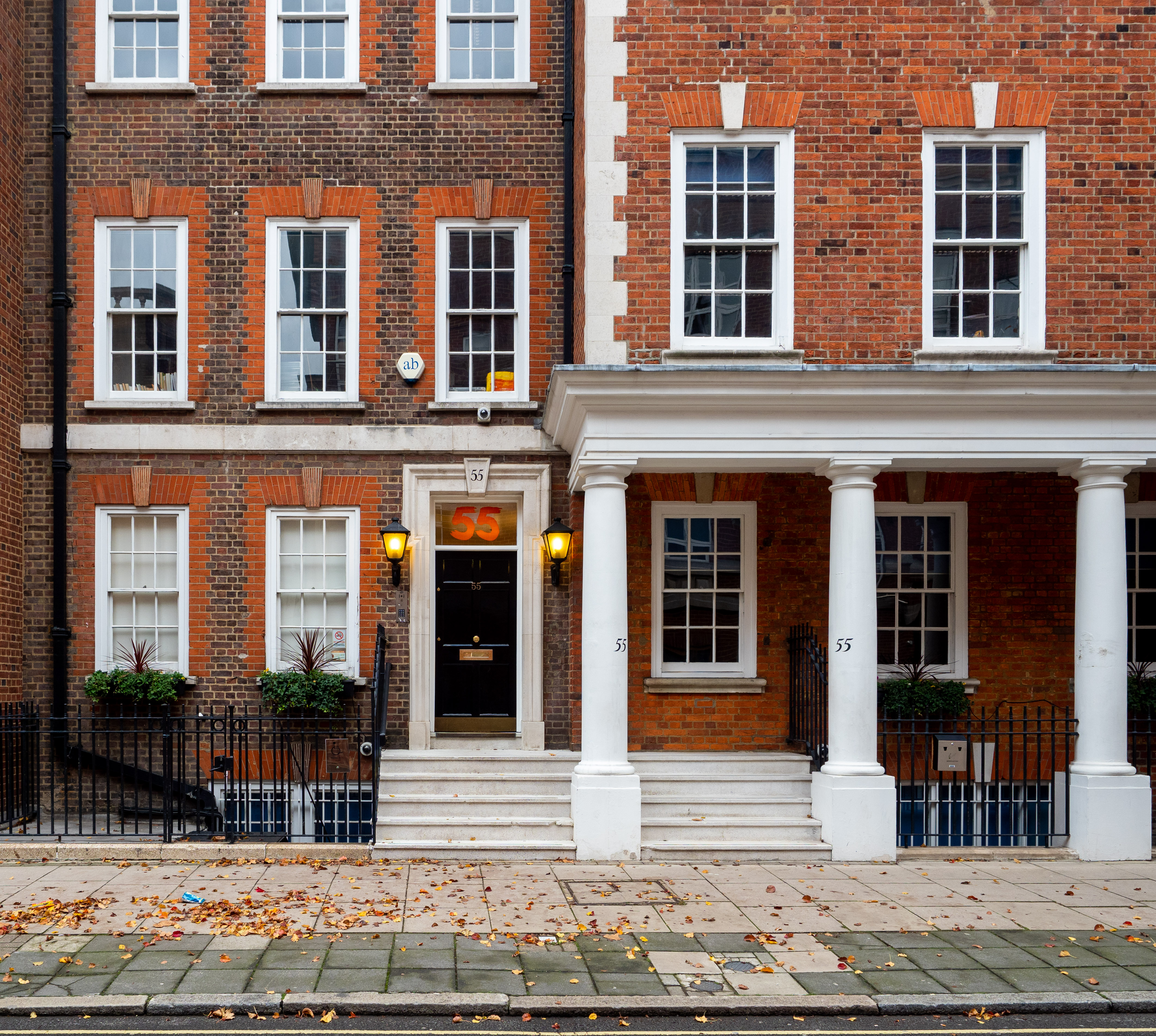 The main entrance to 55 Tufton Street, London, UK. A shared office space for a variety of lobbying organisations and think tanks